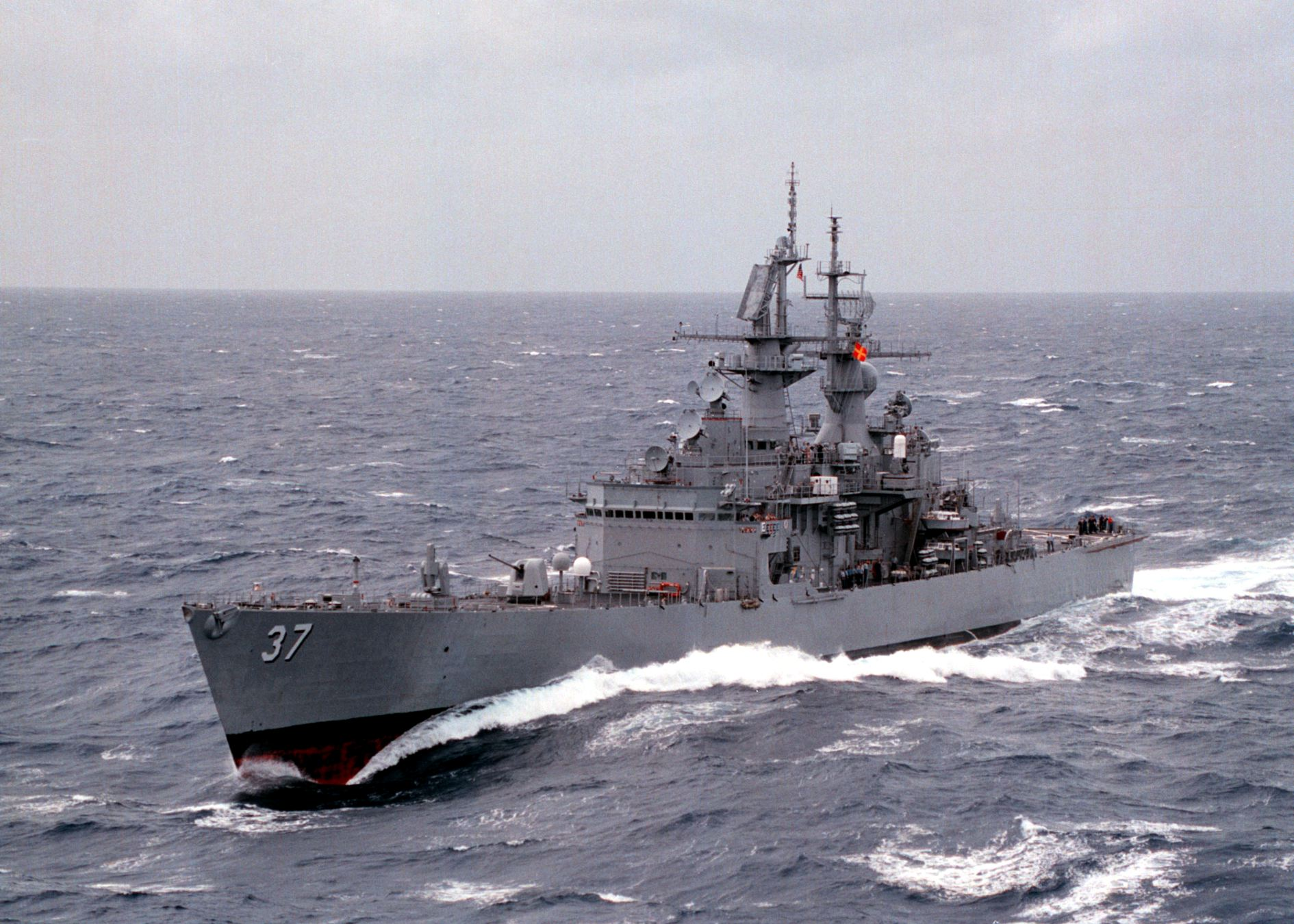 USS South Carolina (CGN-37) cuts through the water of the Atlantic Ocean during a transit to the Mediterranean Sea on 9 OCT 1997. Official U.S. Navy Photo by Photographer's Mate First Class Petty Officer Gregory Pinkley (971009-N-9975P-001).